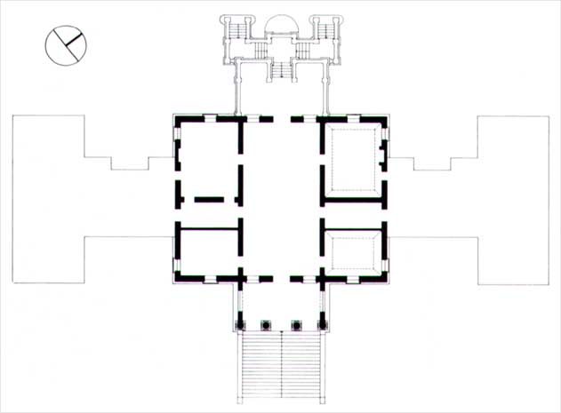 Villa Porto in Vivaro of Dueville, Province of Vicenza. Relief from Cevese, 1971. Vicenza, CISA